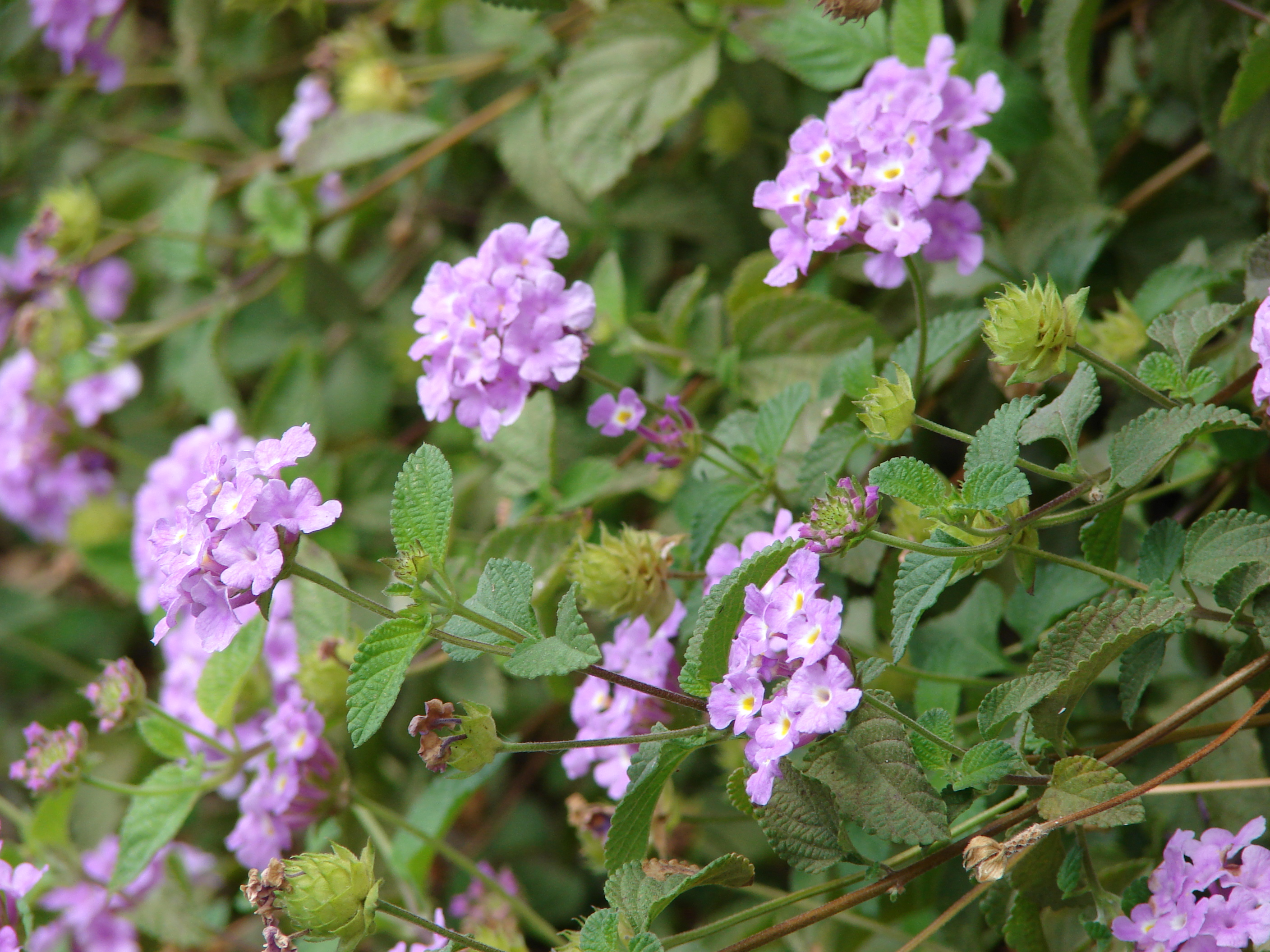 Lantana montevidensis (purple flowers and leaves). Location: Maui, Lahainaluna Road